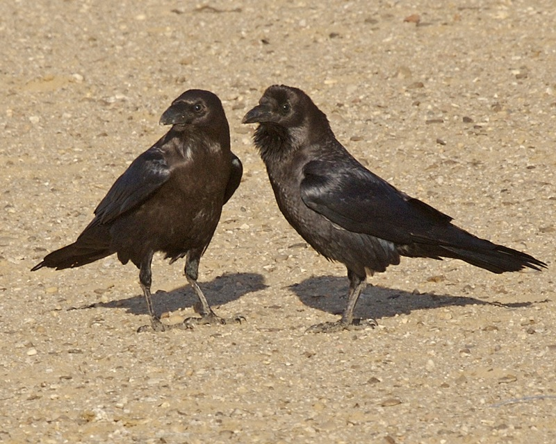 Brown-necked Raven (Corvus ruficollis) El Fayoum, Egypt 5th. January 2008 Arabic: الغراب بني الرقبة, غراب البين Distribution